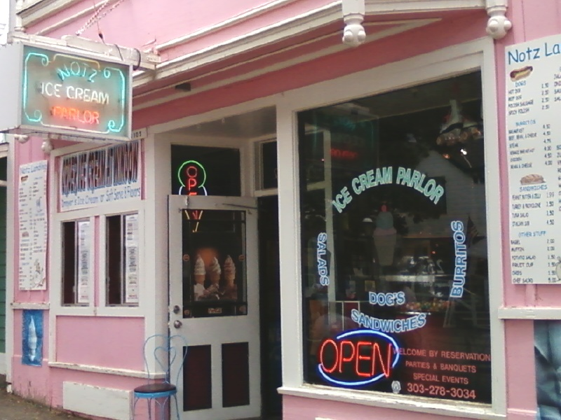 Notz Ice Cream Parlor at Heritage Square